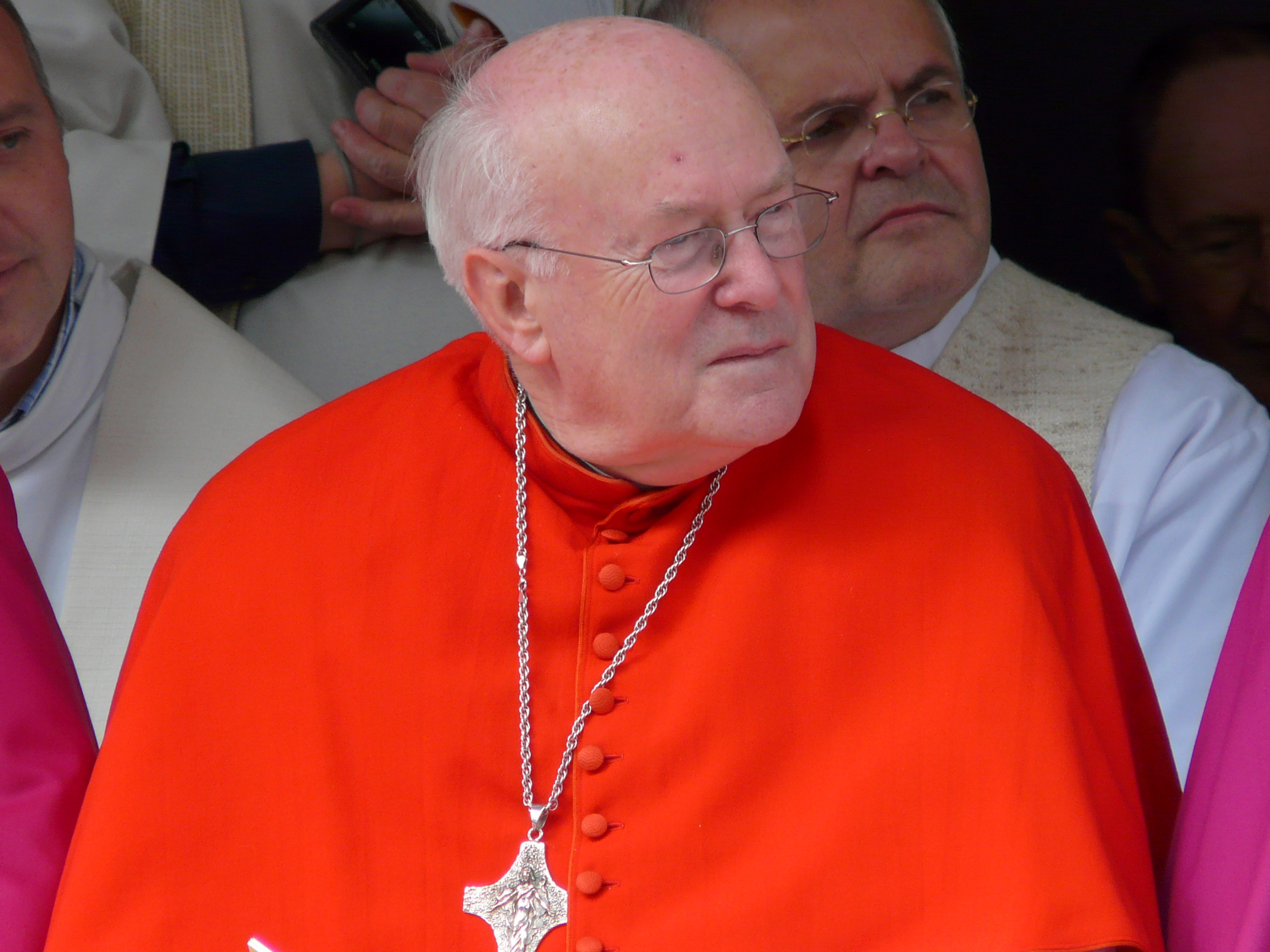 Kardinaal Godfried Danneels in 2009 Danneels, formerly head of the Belgian church